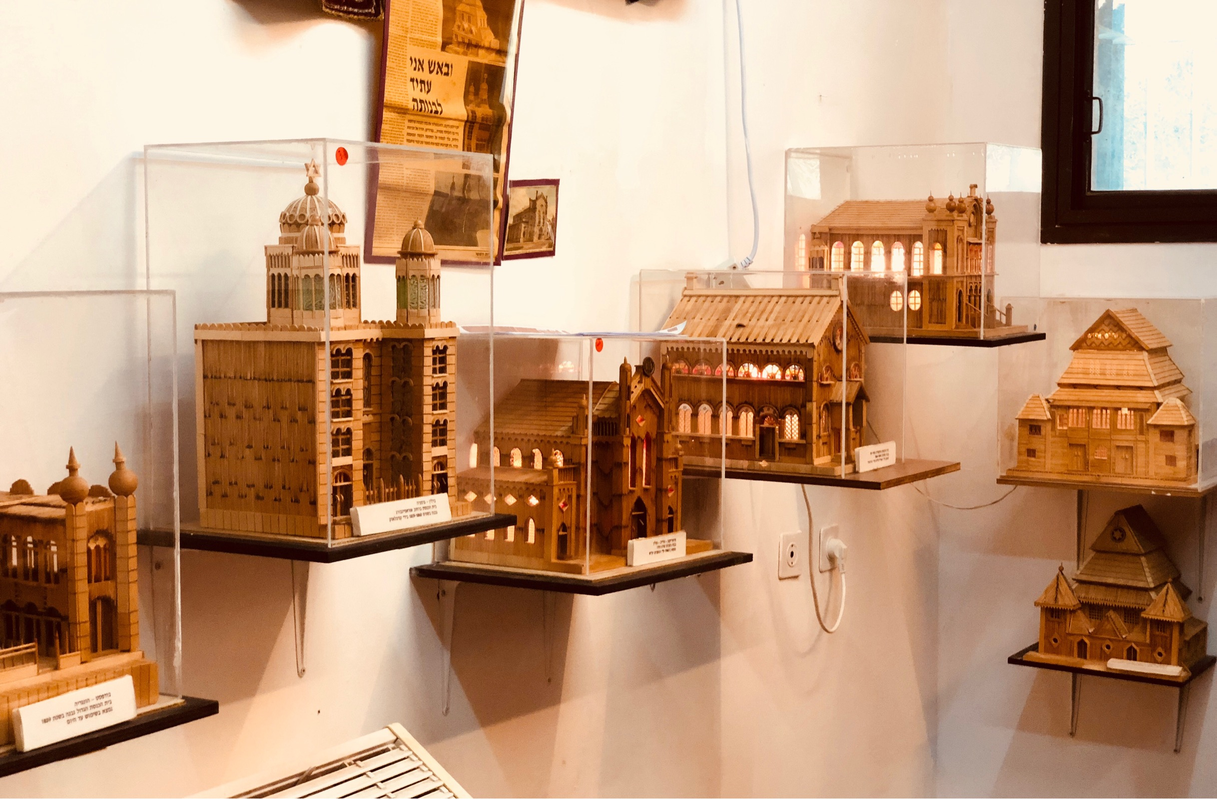 Synagogue models, including synagogues that were destroyed in the Holocaust. The Museum of Jewish Heritage in Lod, Israel.